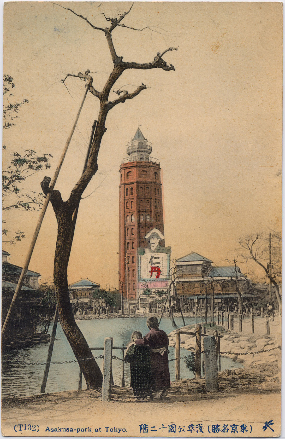 Asakusa-park at Tokyo. 12 story observation tower (Ryōunkaku) and Jintan billboard.